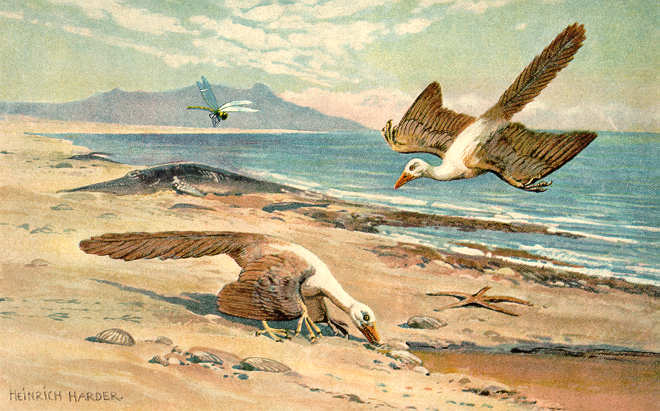 Archeopteryx.